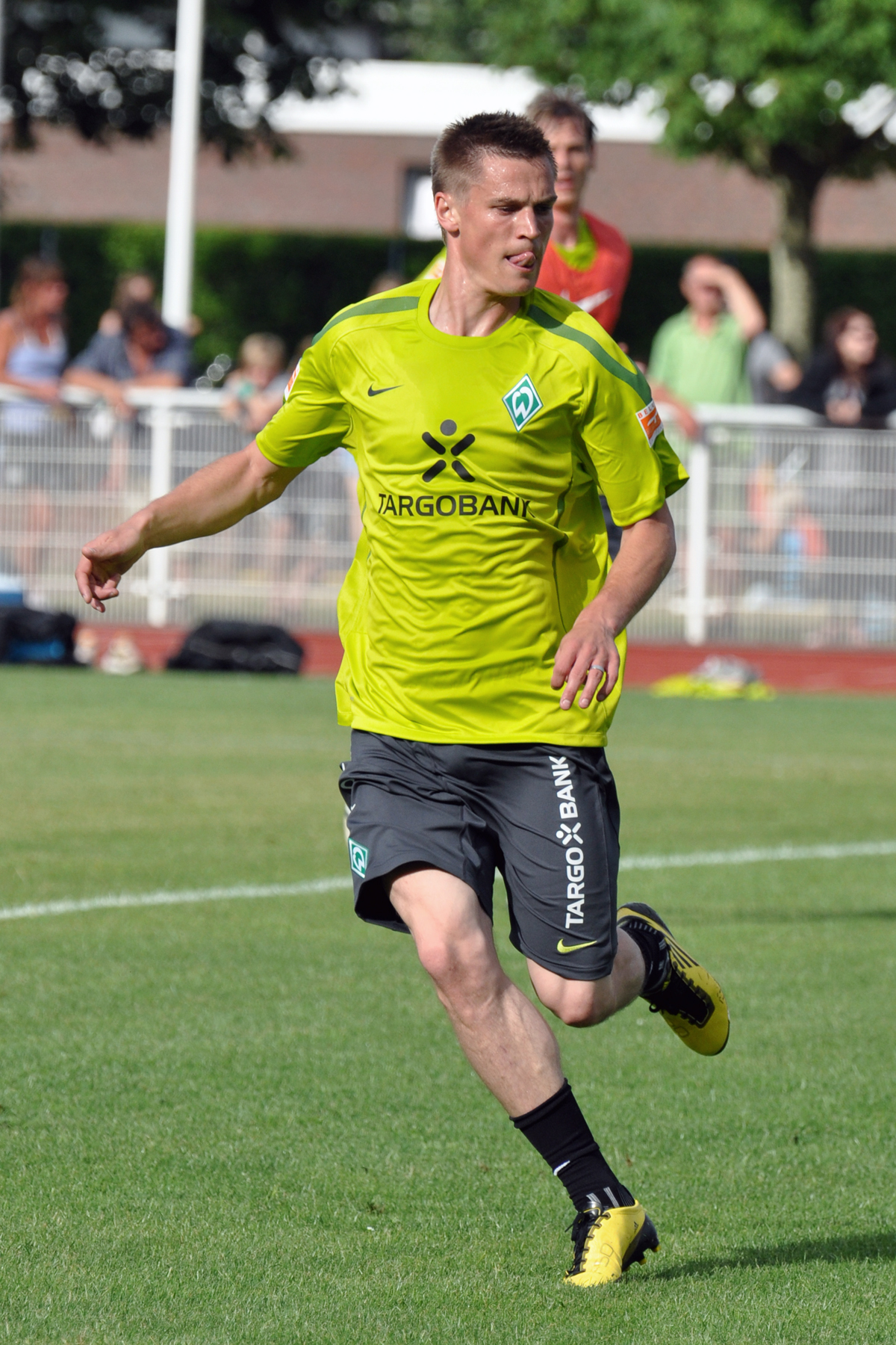 Markus Rosenberg in action for Werder Bremen